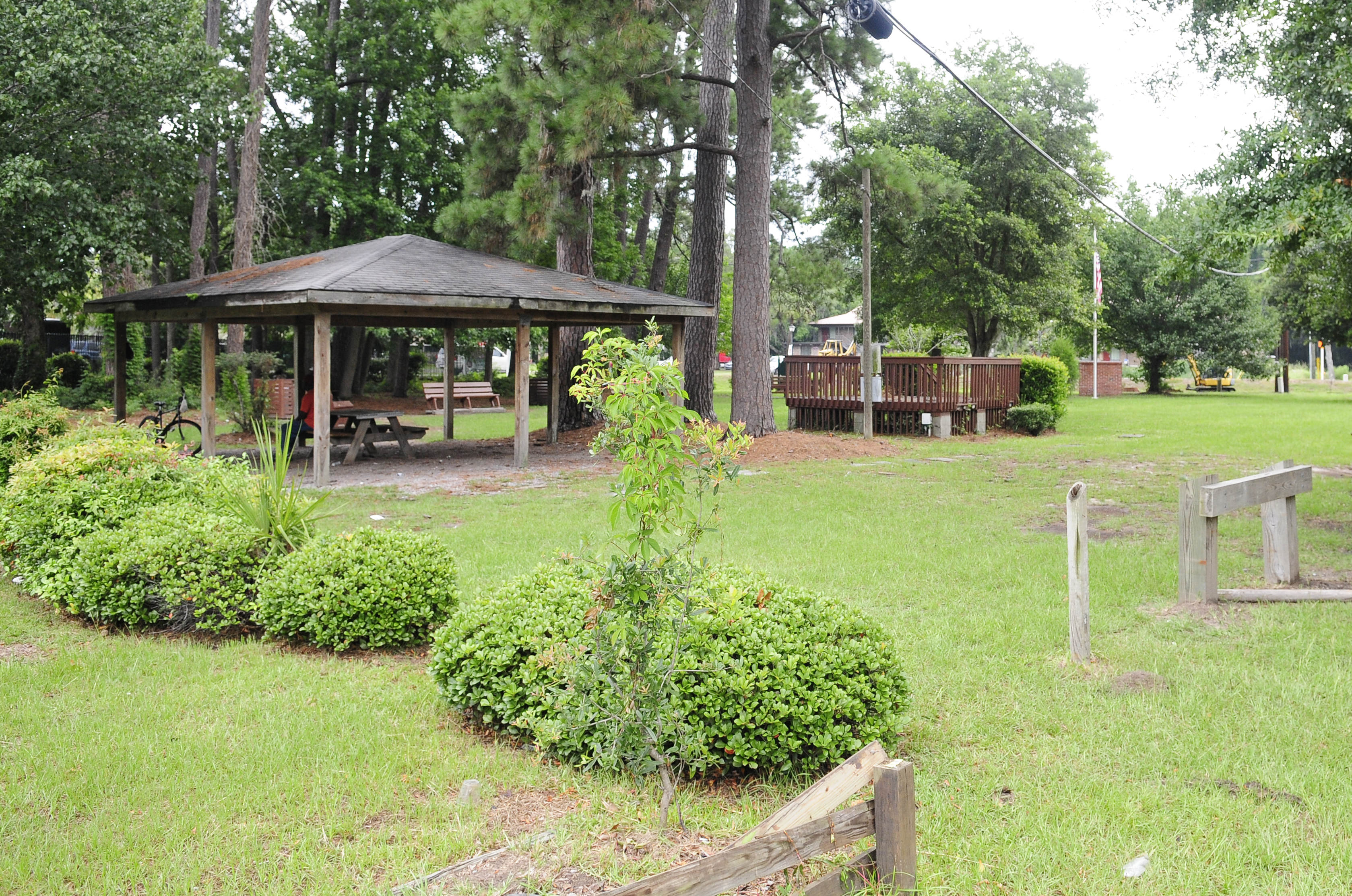 The Green